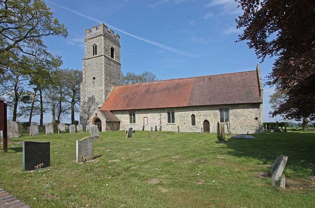 St Mary, Ashby St Mary, Norfolk